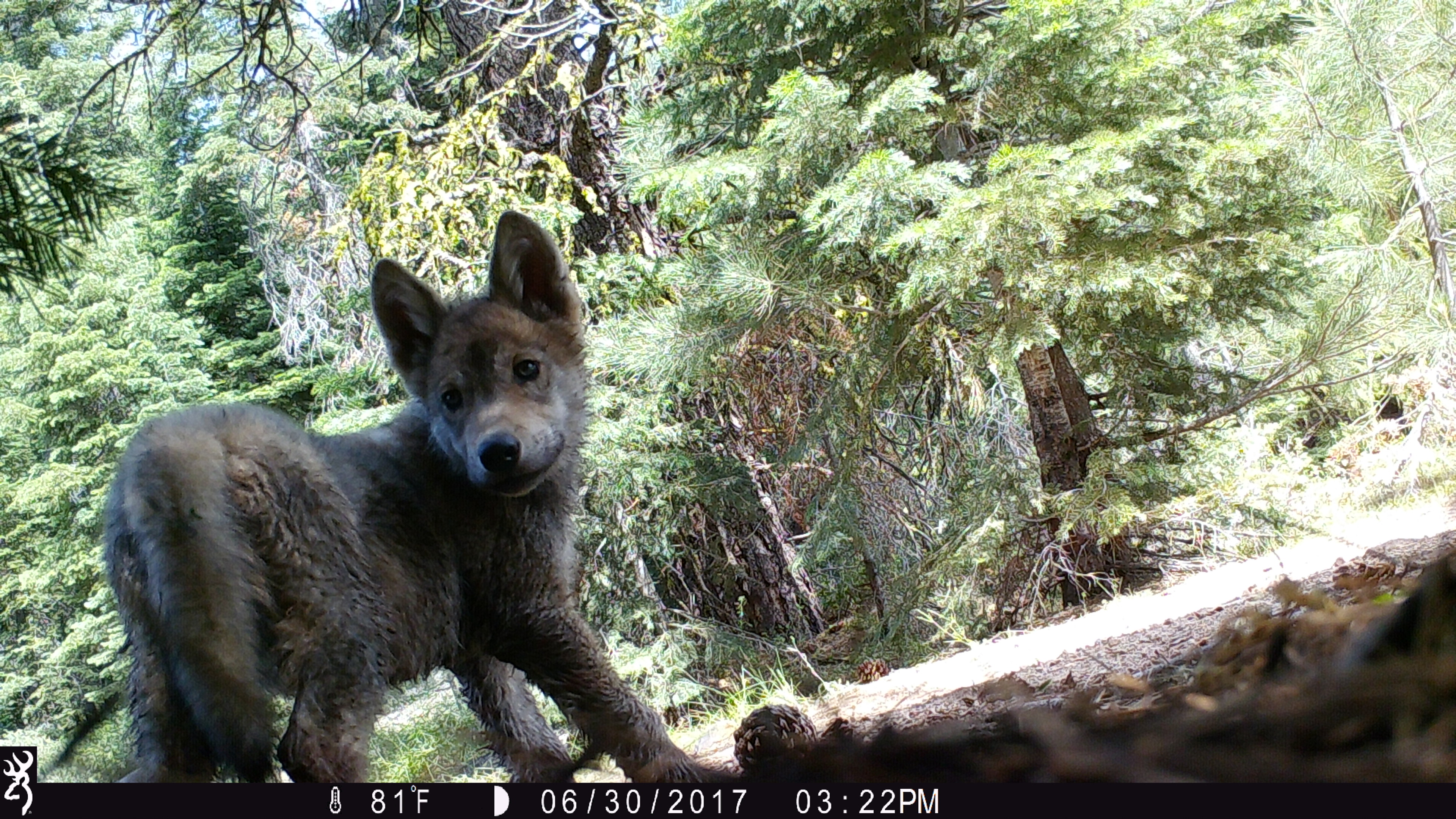 This photo, taken from a US Forest Service remote trail camera, shows a pup from the Lassen Pack, likely grand-pup of OR-7, the famous wolf also known as Journey.